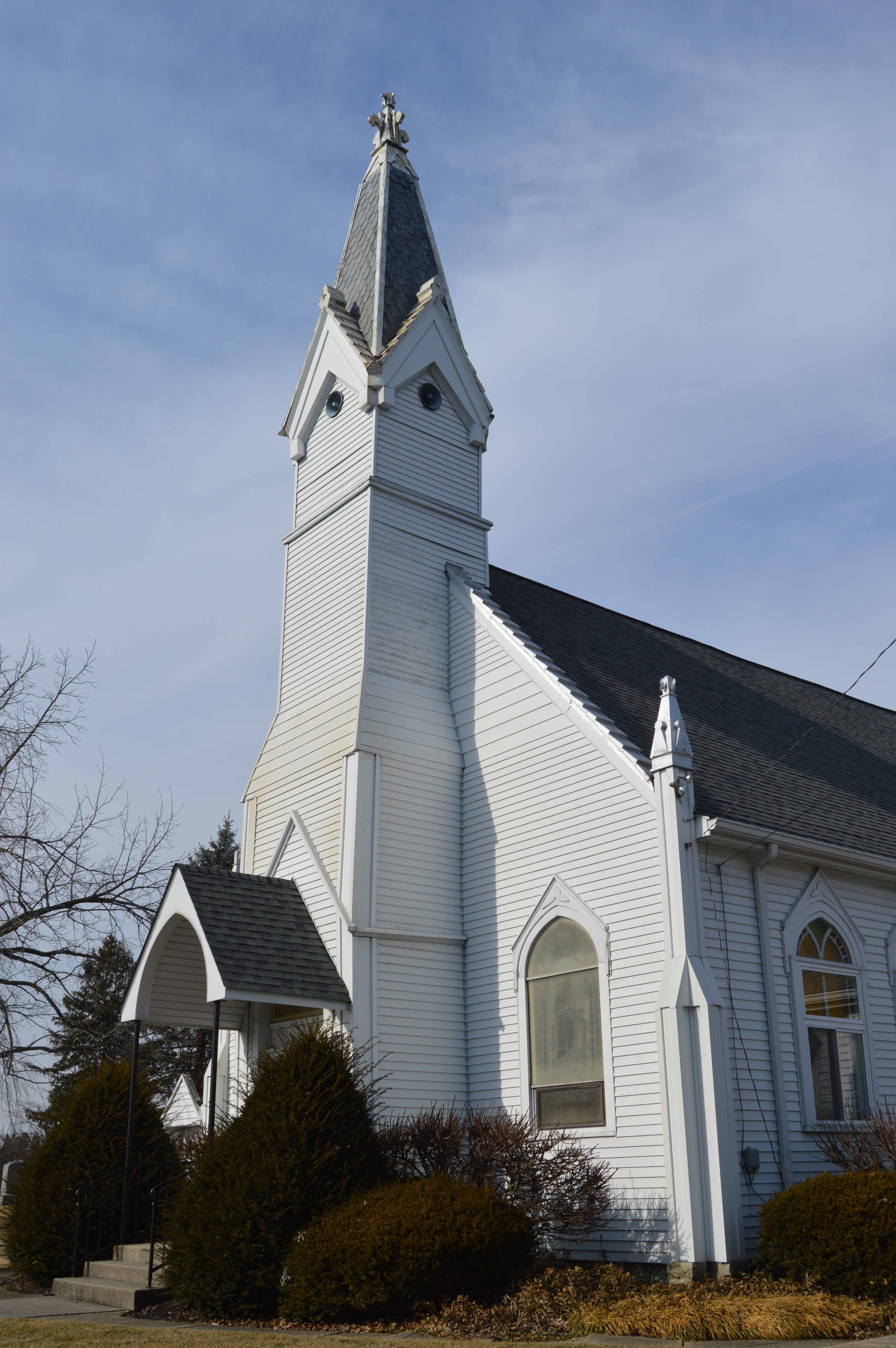 Front of the Unionville Center United Methodist Church, located at 127 W. Main Street in Unionville Center, Ohio, United States.